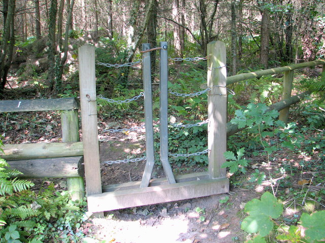 Gate to Ash Grove Allotment An alternative to a stile or a kissing gate known as a "Rambler Gate" by the manufacturers, British Gates and Timber Ltd, Biddenden Kent.